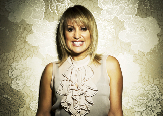 Nicki Chapman, an English television presenter who also works in the British pop music industry.